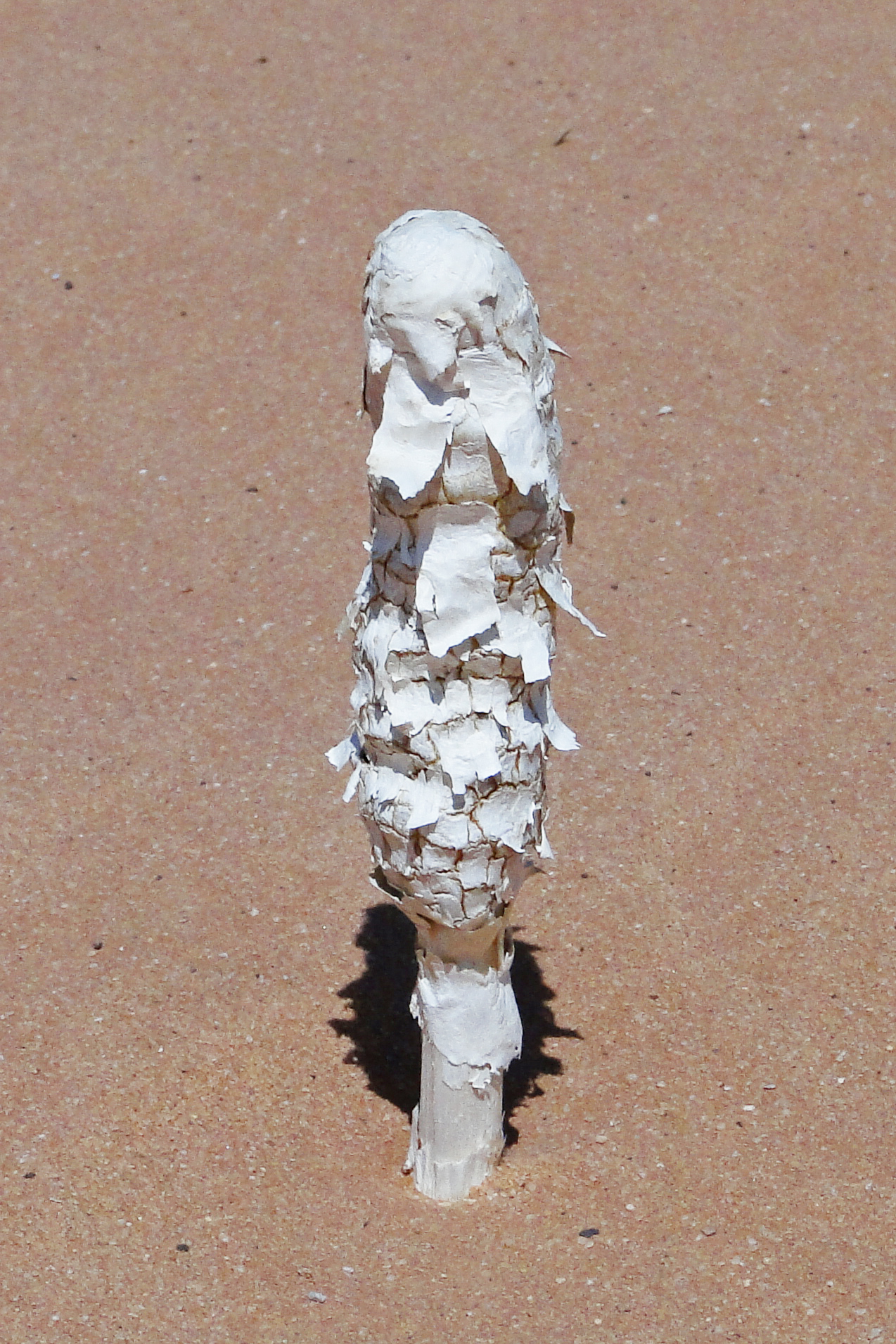 Podaxis pistillaris — False ink cap (mushroom). In the Wadi Rum, Jordan.